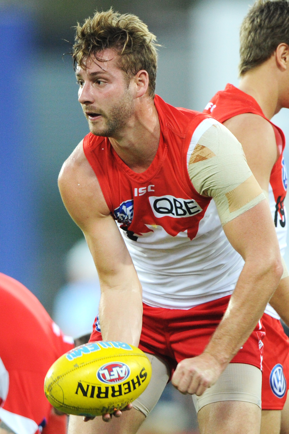 Alex Johnson of Sydney handballing during the 2018 NEAFL round 15 match between NT Thunder and Sydney at TIO Stadium on Saturday, 14 July 2018 in Darwin, Northern Territory.